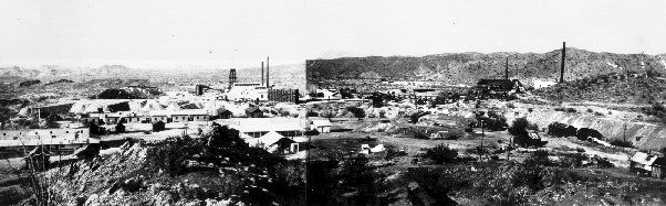 Panaramic view of Swansea, circa 1920.